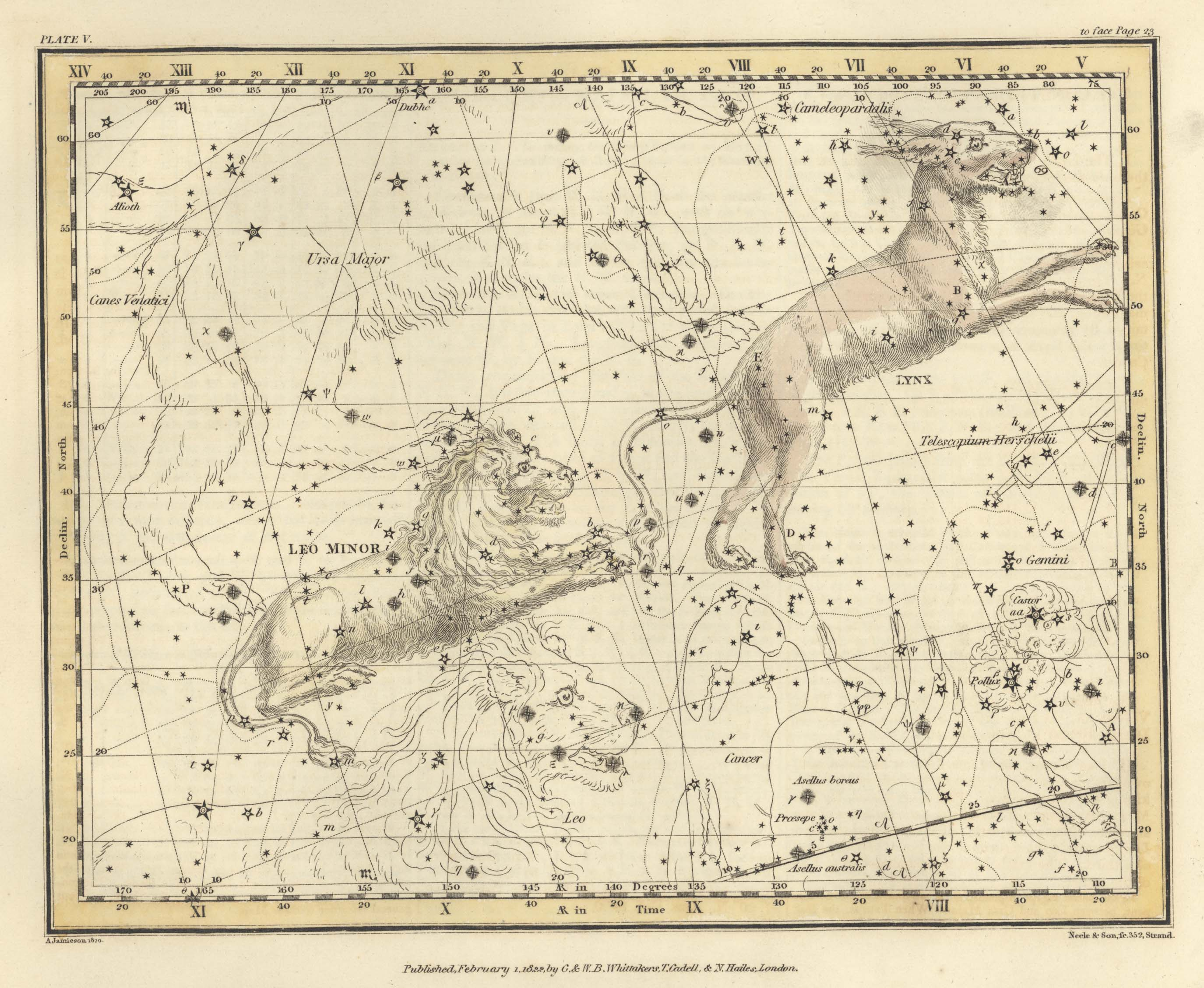 Plate 5 from A celestial atlas comprising a systematic display of the heavens in a series of thirty maps illustrated by scientific description of their contents and accompanied by catalogues of the stars and astronomical exercises